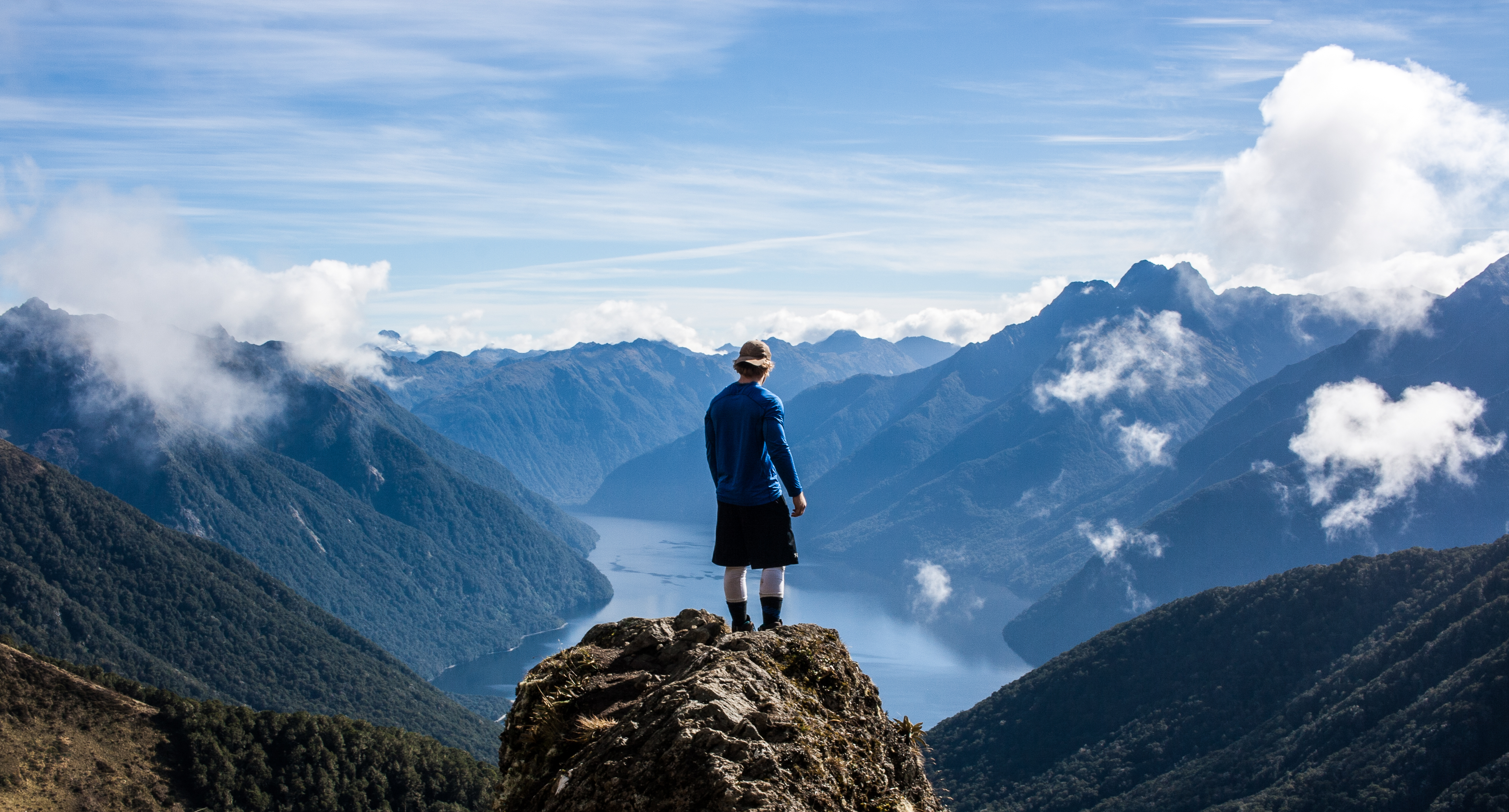 Kepler Track, Fiordland National Park, New Zealand